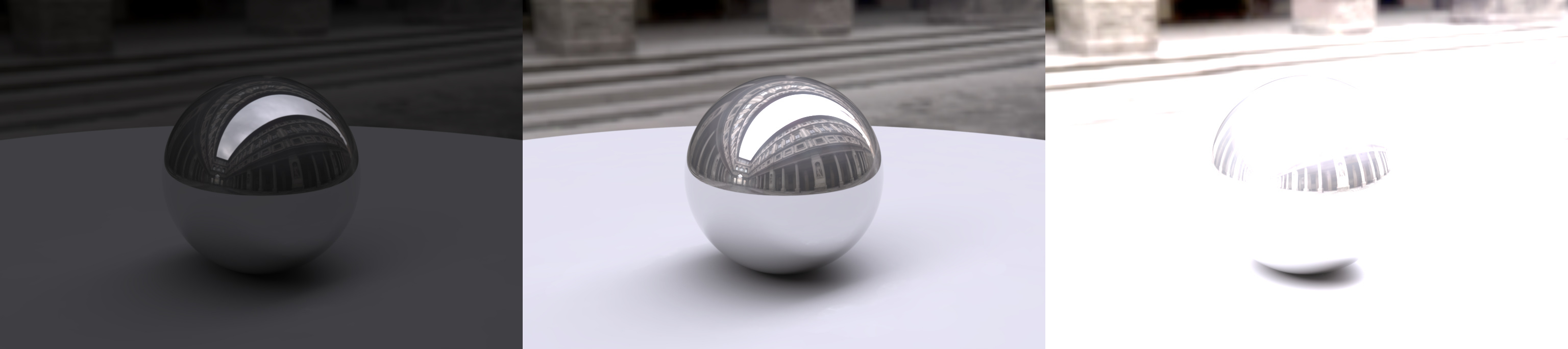 A simple scene rendered using Radiance and using Paul Debevec's well-known "Uffizi" light probe. Shown are three "exposures" of the same HDR image: -4 f-stops, the desired exposure, and +3 f-stops.